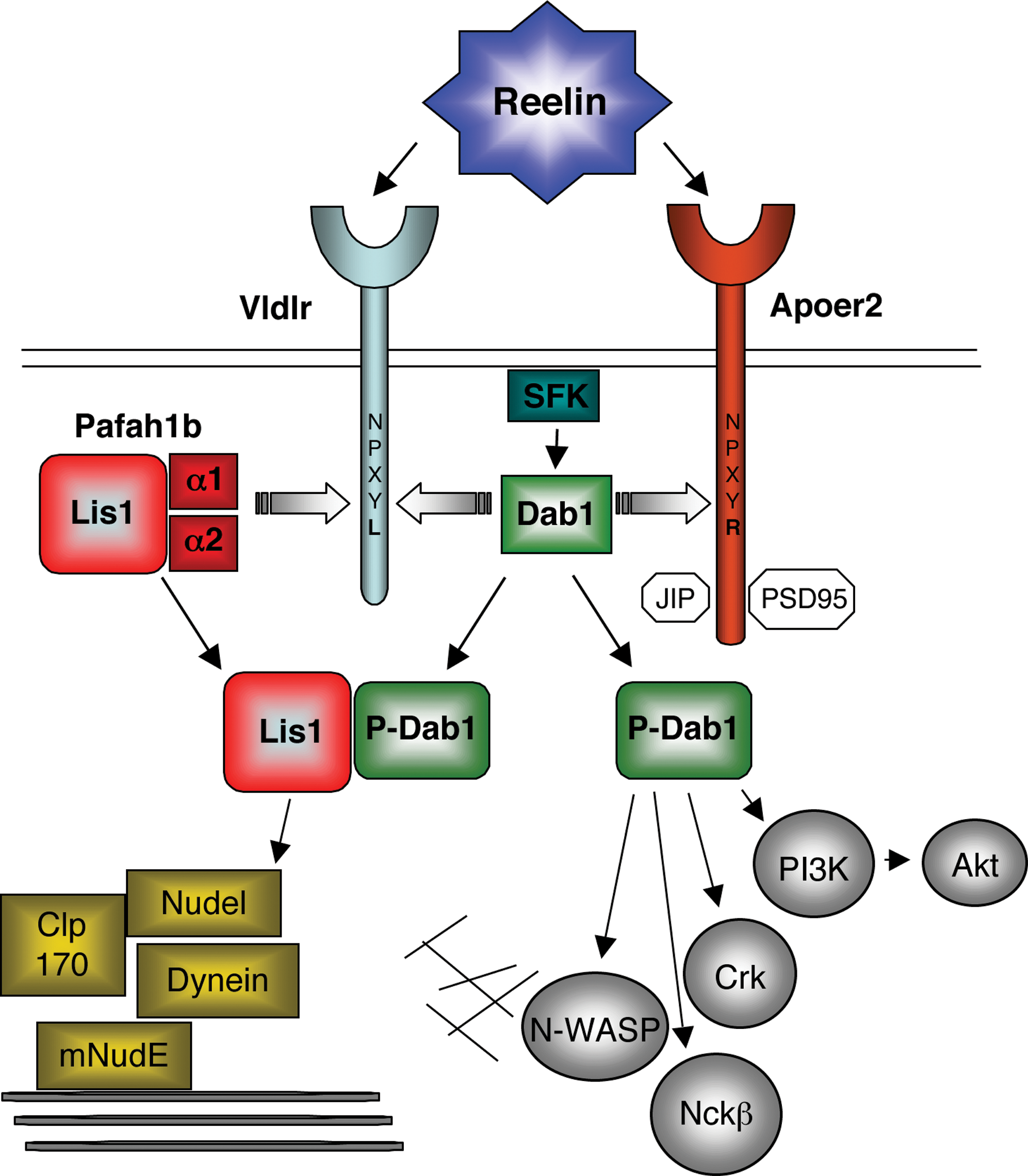 Integrated model of Reelin and Lis1 signaling. Reelin binds to VLDLR and ApoER2 and causes src-family kinase (SFK) activation and Dab1 phosphorylation. Dab1 binds to the NPxY motif of both, VLDLR and ApoER2. Upon Reelin stimulation, phosphoDab1 (P-Dab1) interacts with Lis1 and with other signal transduction molecules (grey circles). Lis1 also binds the catalytic subunits of the Pafah1b complex (α1 and α2) as well as components of the cytoplasmic dynein complex (yellow square). α1 and α2 also bind VLDLR at the NPxYL motif and compete with Dab1 for receptor occupancy. These subunits do not recognize the NPxYR motif of ApoER2. A unique domain of ApoER2 enables unique interactions with synaptic and trafficking proteins (white octagons). The binding of catalytic Pafah1b subunits to VLDLR may displace P-Dab1 and promote its interaction with Lis1. Signaling molecules downstream of Lis1 and Dab1 affect cytoskeleton dynamics by acting on microtubules (thick lines) or actin filaments (thin lines), thereby controlling neuronal migration and layer formation.